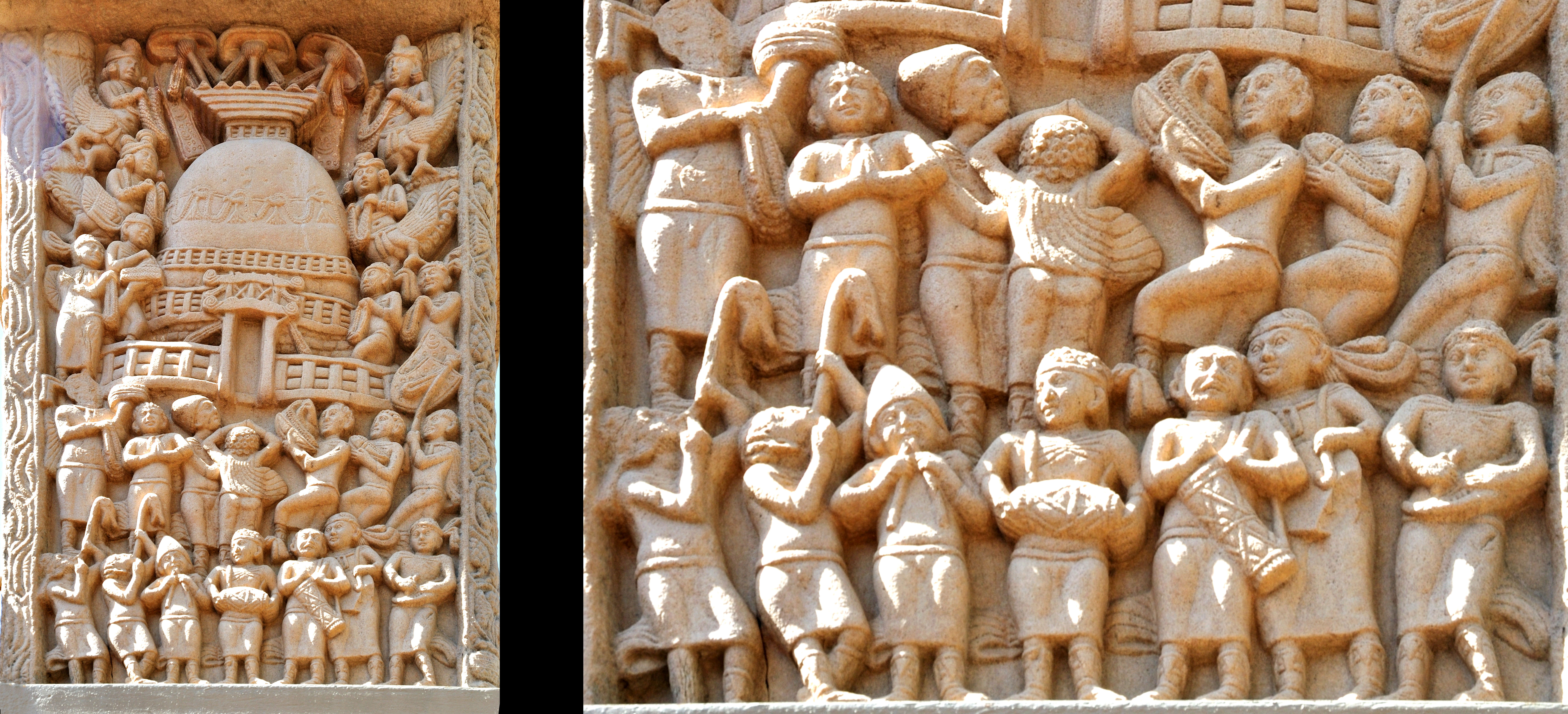 Crop and formatting of attached file. Describes foreigners, probably Indo-Greeks worshipping the Stupa at Sanchi. According to the relief, the scene is taking place at the Southern Gateway of Stupa No1, the main entrance to the main Stupa. Many of the instruments are similar to this Hellenistic frieze from Jamal Ghari in Gandhara.